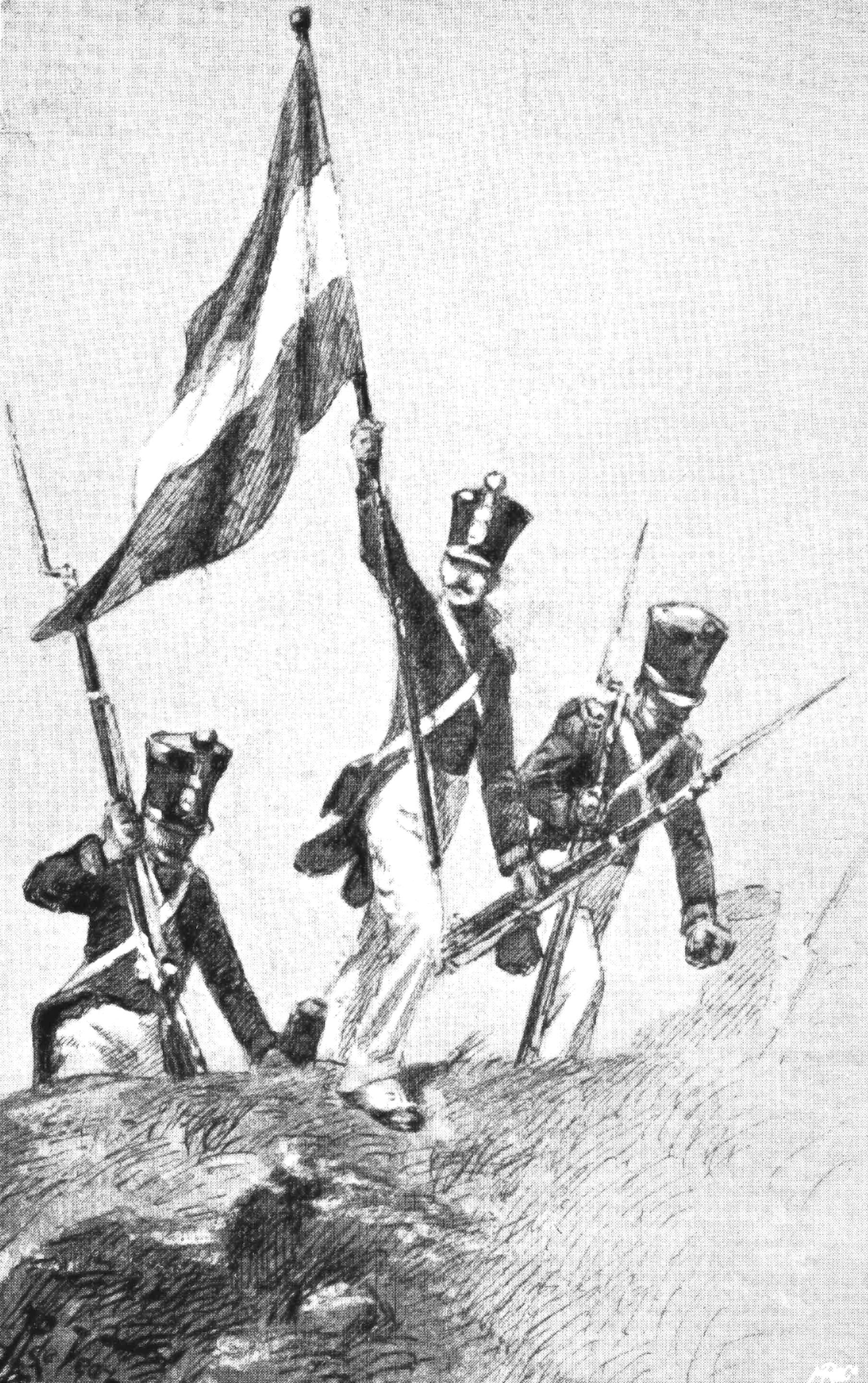 Flankeur Ligtvoet op een versterking